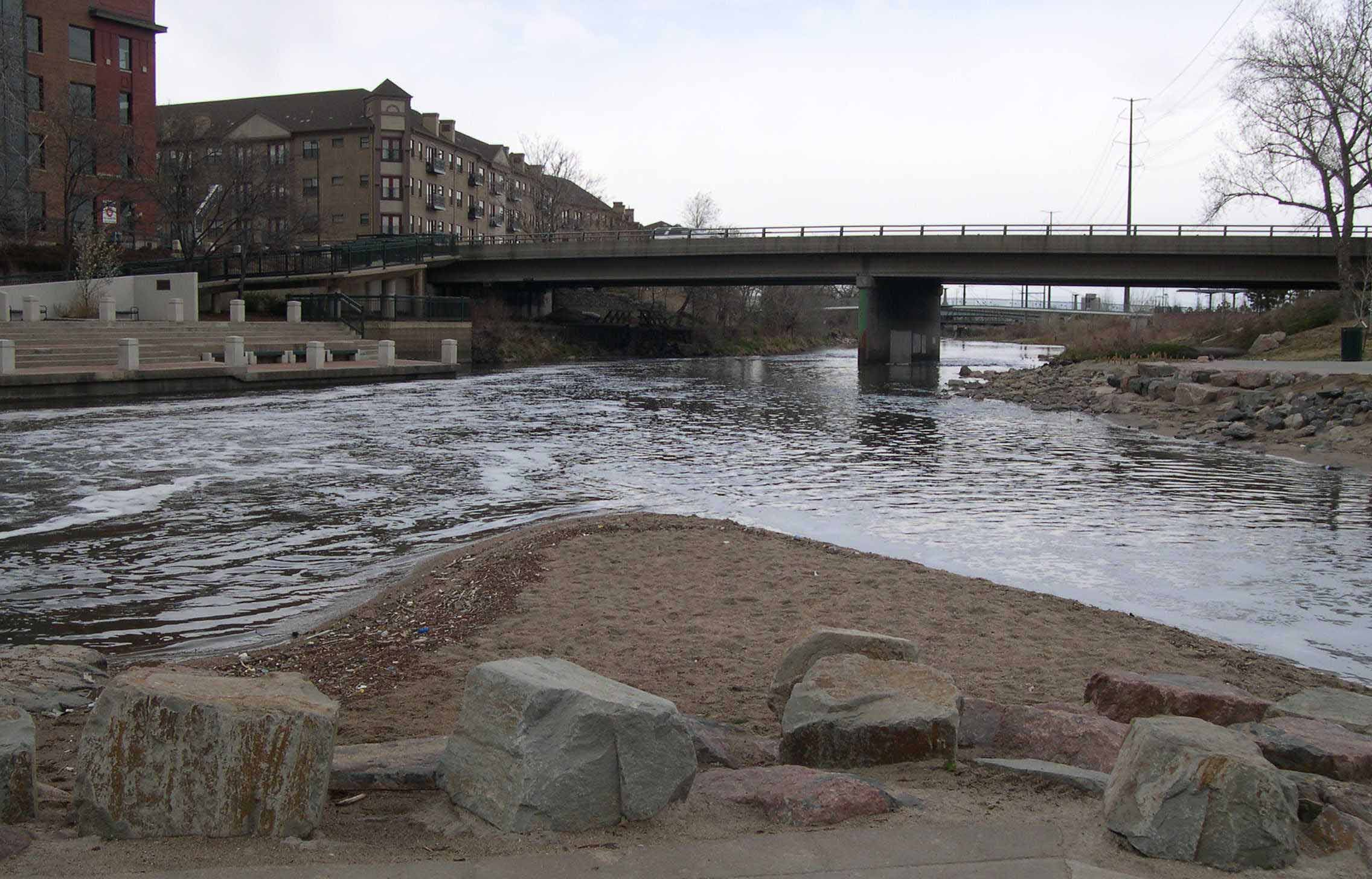 This is the spot where Cherry Creek and the Platte River meet.